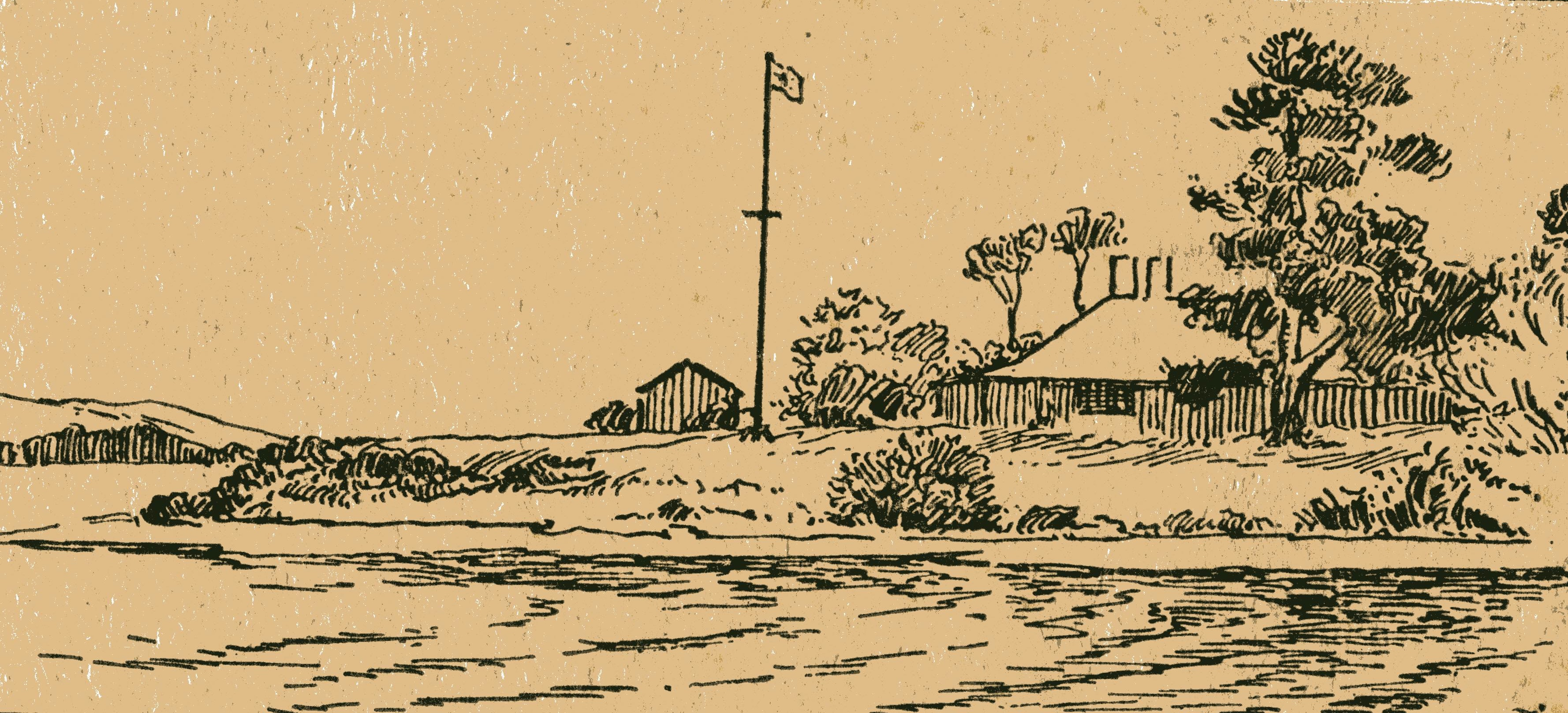 Residency Point, Albany, Western Australia - sketch drawing on the cover of the 1927 Centenary book - illustrator unknown